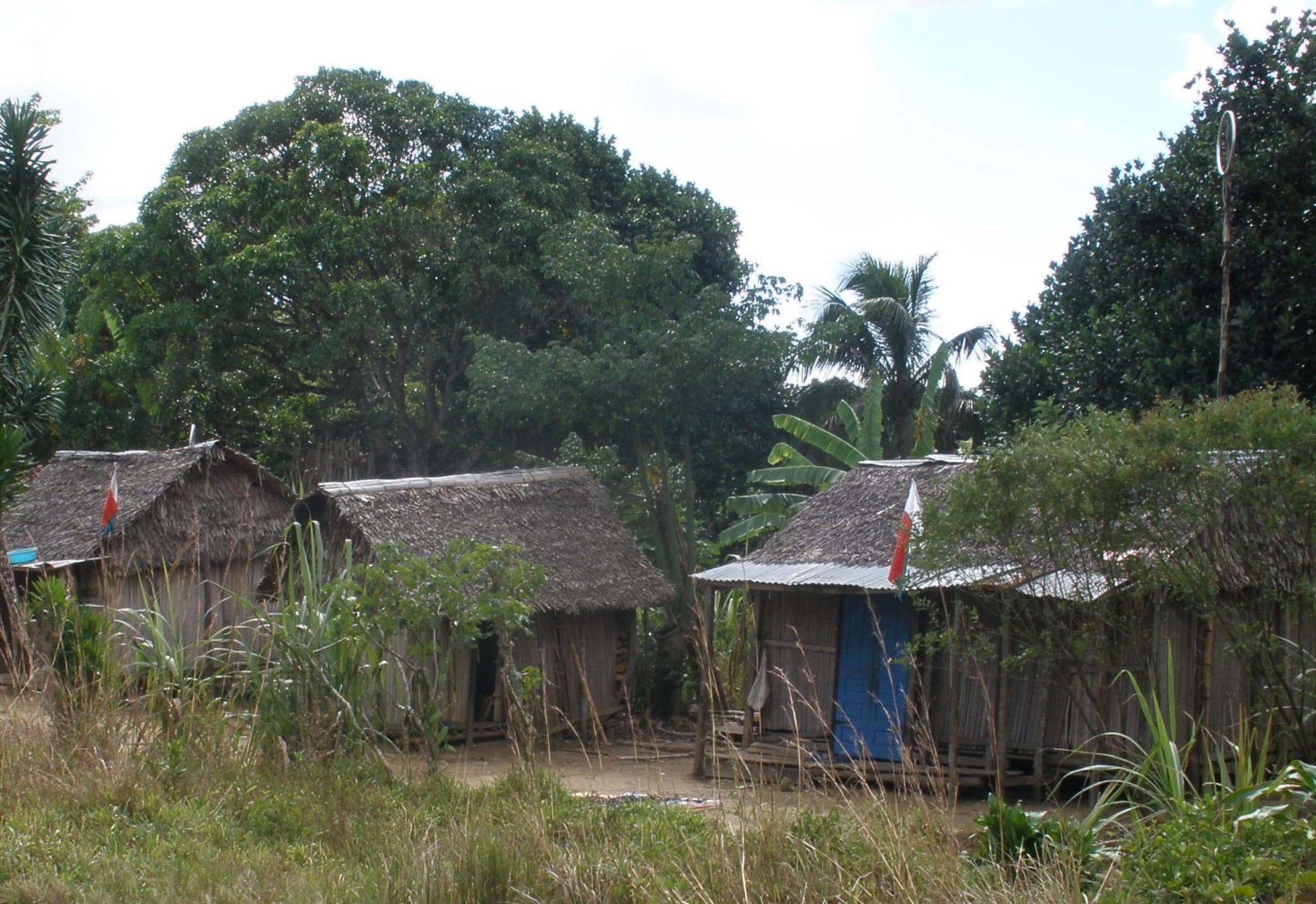 Houses made of raffia in Sambava, Madagascar Cases de raffia a Sambava, Madagascar